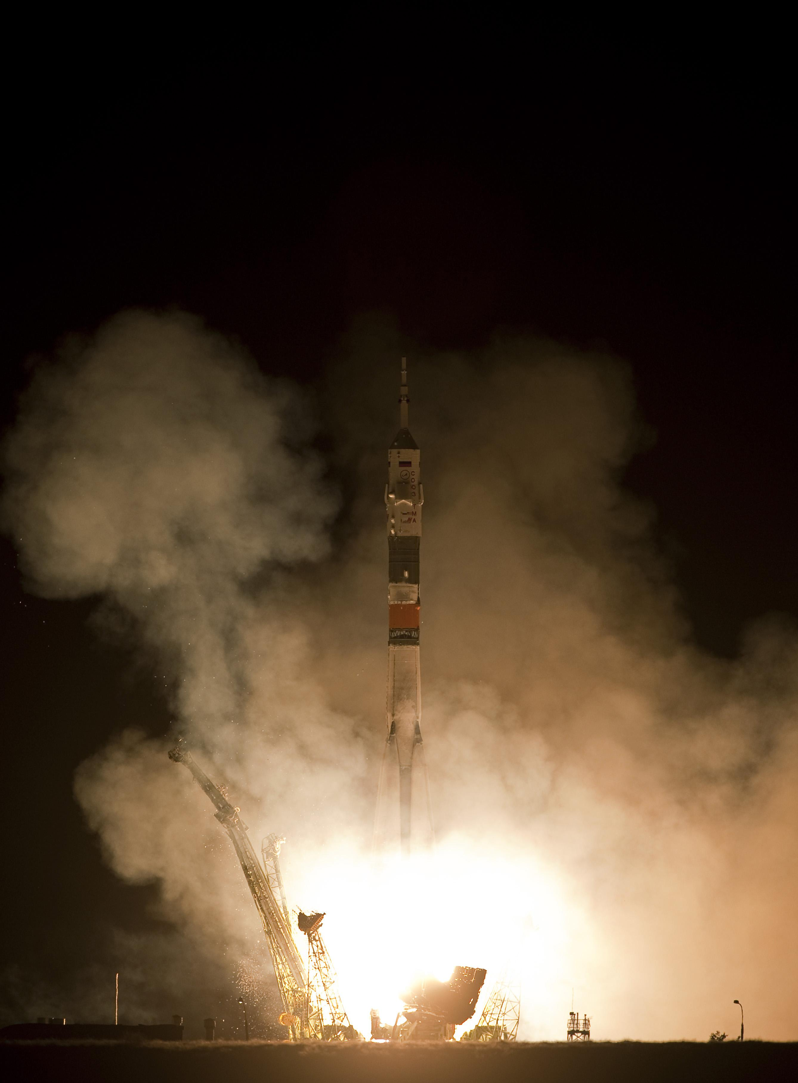 The Soyuz TMA-19 rocket launched from the Baikonur Cosmodrome in Kazakhstan on Wednesday, June 16, 2010, carrying Expedition 24 NASA astronauts Shannon Walker and Douglas Wheelock, and Soyuz Commander Fyodor Yurchikhin to the International Space Station. Their Soyuz TMA-19 rocket launched at 3:35 a.m Kazakhstan time, or 5:35 p.m EDT.